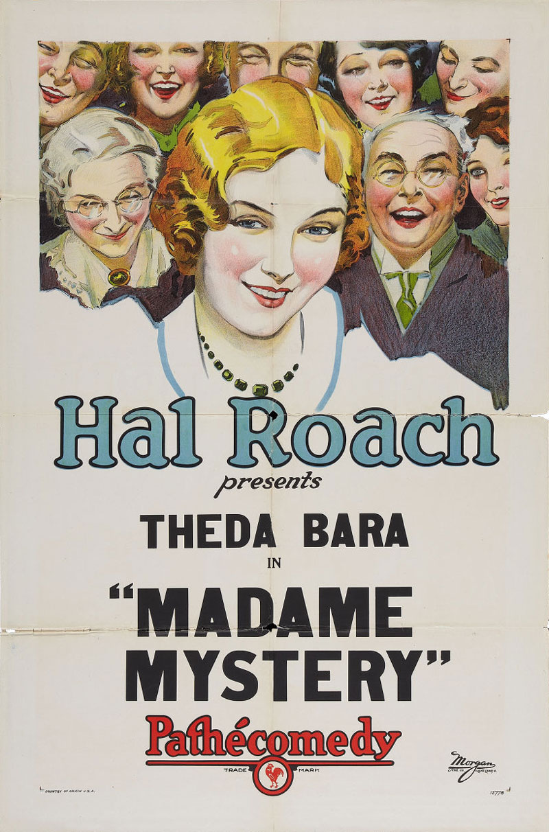 Poster for the 1926 film 'Madame Mystery. There are no copyright marks on the poster. At lower left is Country of origin USA. At lower right is the logo of the Morgan Litho Co, Cleveland-they printed the poster-and 12778-likely a job number for the printing of the poster.